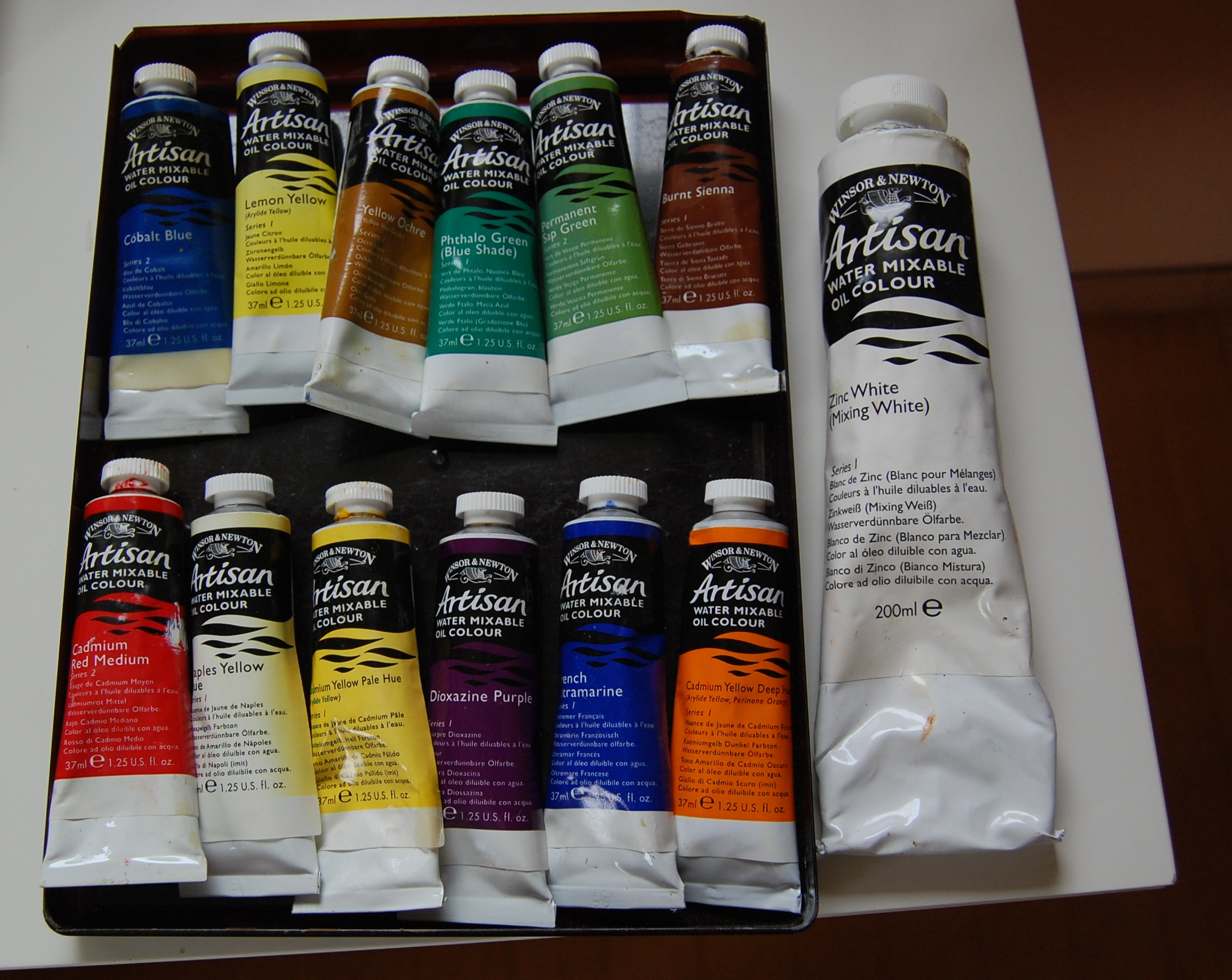 Artisan water mixable oil color Winsor & Newton